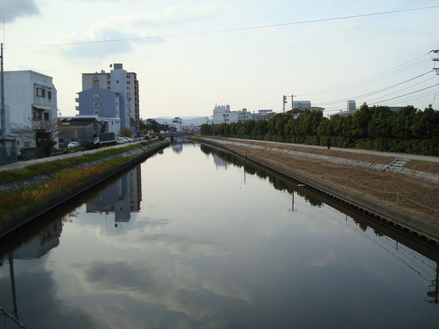 Aibiki river at Takamatsu city, Kagawa, Japan.